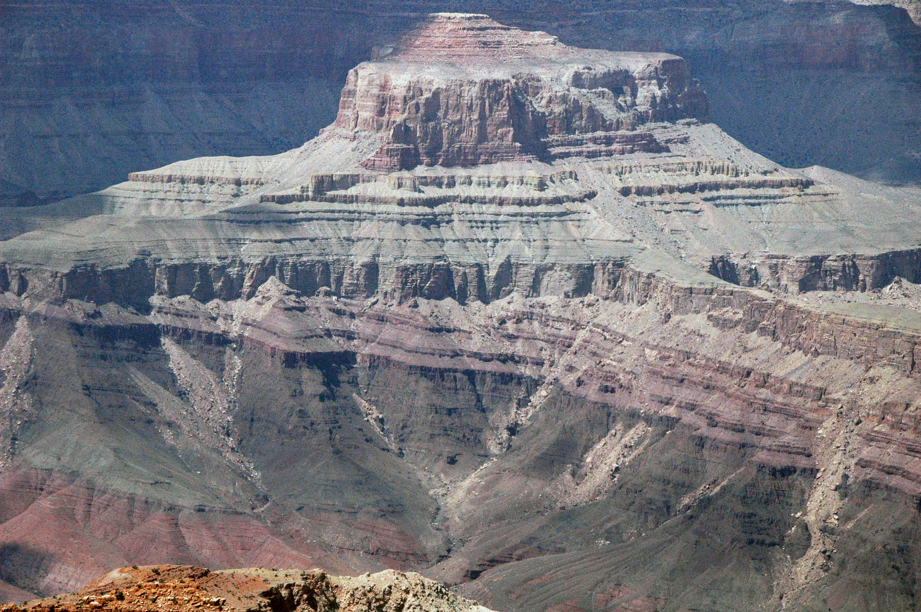 Angular unconformity between horizontal Tonto Group rocks (of Cambrian age) on top of tilted Grand Canyon Supergroup rocks (1.1-1.2 Ga of Mesoproterozoic age) in the Grand Canyon, Arizona, USA. (Apollo Temple landform, below East Rim, north bank of Colorado River, near Unkar Creek(?).)